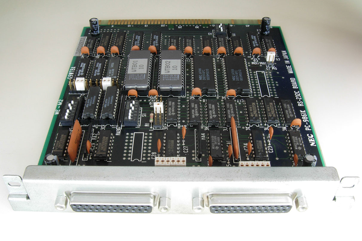 NEC PC-9861K 2nd/3rd RS-232C interface board for NEC PC-9801